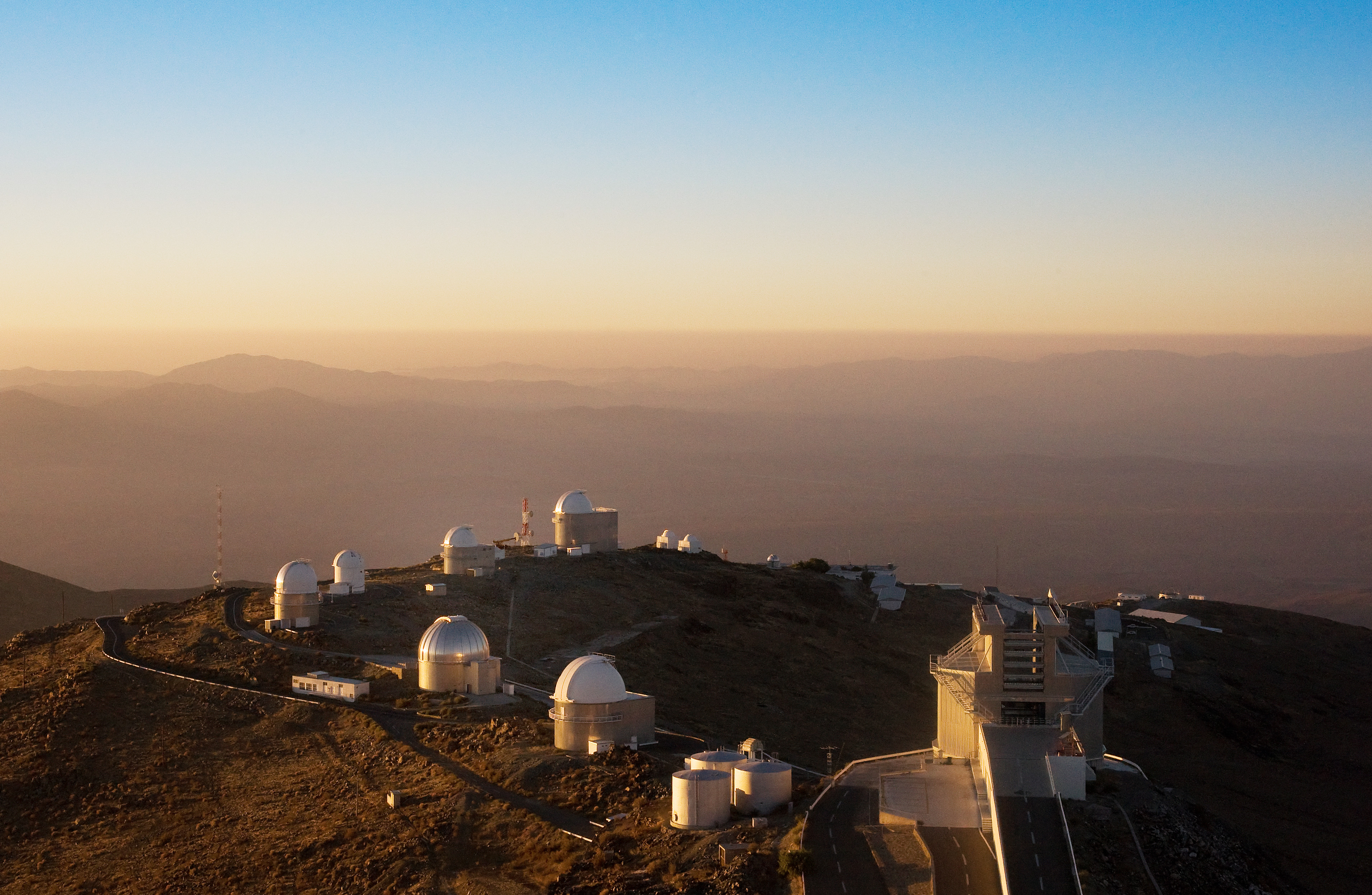 A ring of telescopes at ESO's La Silla observatory. La Silla, in the southern part of the Atacama desert, 600 km north of Santiago de Chile, was ESO's first observation site. The telescopes are 2400 metres above sea level, providing excellent observing conditions. ESO operates the 3.6-m telescope, the New Technology Telescope (NTT), and the 2.2-m Max-Planck-ESO telescope at La Silla. La Silla also hosts national telescopes, such as the 1.2-m Swiss Telescope and the 1.5-m Danish Telescope.